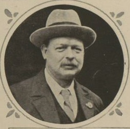 Alonzo Swales, prominent member of the Amalgamated Society of Engineers and General Council of the Trades Union Congress